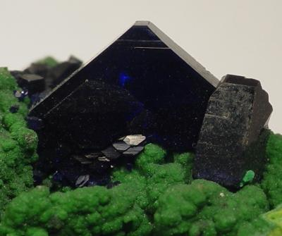 Arsentsumebite, Azurite Locality: Tsumeb, Otjikoto (Oshikoto) Region, Namibia (Locality at ) Size: miniature, 3.7 x 2.8 x 2.4 cm Arsentsumebite with Azurite This is worth it just fo rthe extremely rich, beautiful Arsentsumebite alone! Moreover, razor-sharp Azurite crystals up to 1 cm that have the deep blue color and superb luster that is so sought-after in Azurite. On top of that, the contrast with the deep green of the matrix creates a wonderful eye-appeal. Arsentsumebite is extremely rare and such rich specimens are uncommon, old pieces. Thiis is almost certainly thus a specimen from the earlier levels of the mine, early 1900s or late 1800s. Purchased in 1980 from famed Tsumeb dealers , Miriam and Julius Zweibel.